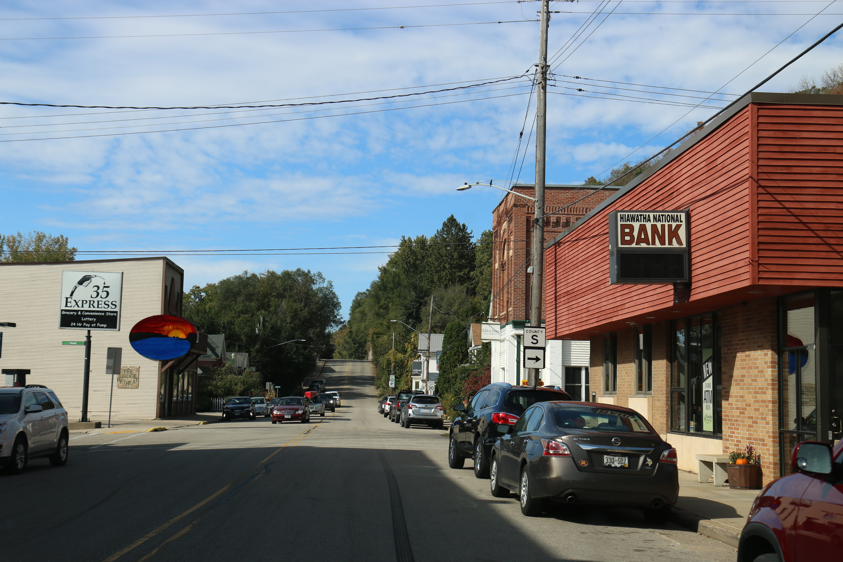 Downtown Maiden Rock, Wisconsin on WIS35.